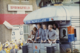 The photo contact sheet, identified as B1898 by the White House Photographic Office (WHPO), is housed at the Gerald R. Ford Presidential Library, a branch of the National Archives and Records Administration (NARA). This file is a 200 dpi photo contact sheet having images from roll of film B1898 of the August 9, 1974 - January 20, 1977 Gerald R. Ford White House Photographic Office Series A0001-A9999 and B0001-B2886 photographs. The date on the photo contact sheet is the date the roll of film was processed, not necessarily the date the photographs were taken. See table below for additional details.